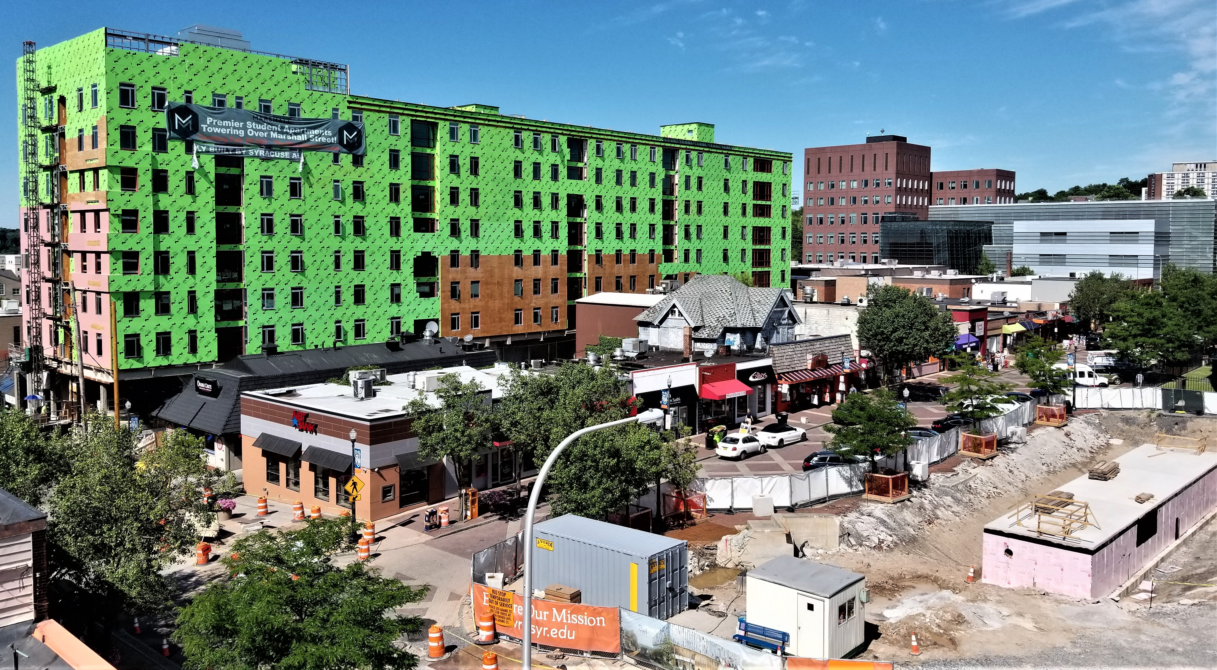 100 block of Marshall Street, Syracuse, New York. (Redo of File:Marshall St Syracuse.jpg, 11 years later. Photo taken from the northeast corner of the roof of the parking garage at Crouse and Waverly Sts.)